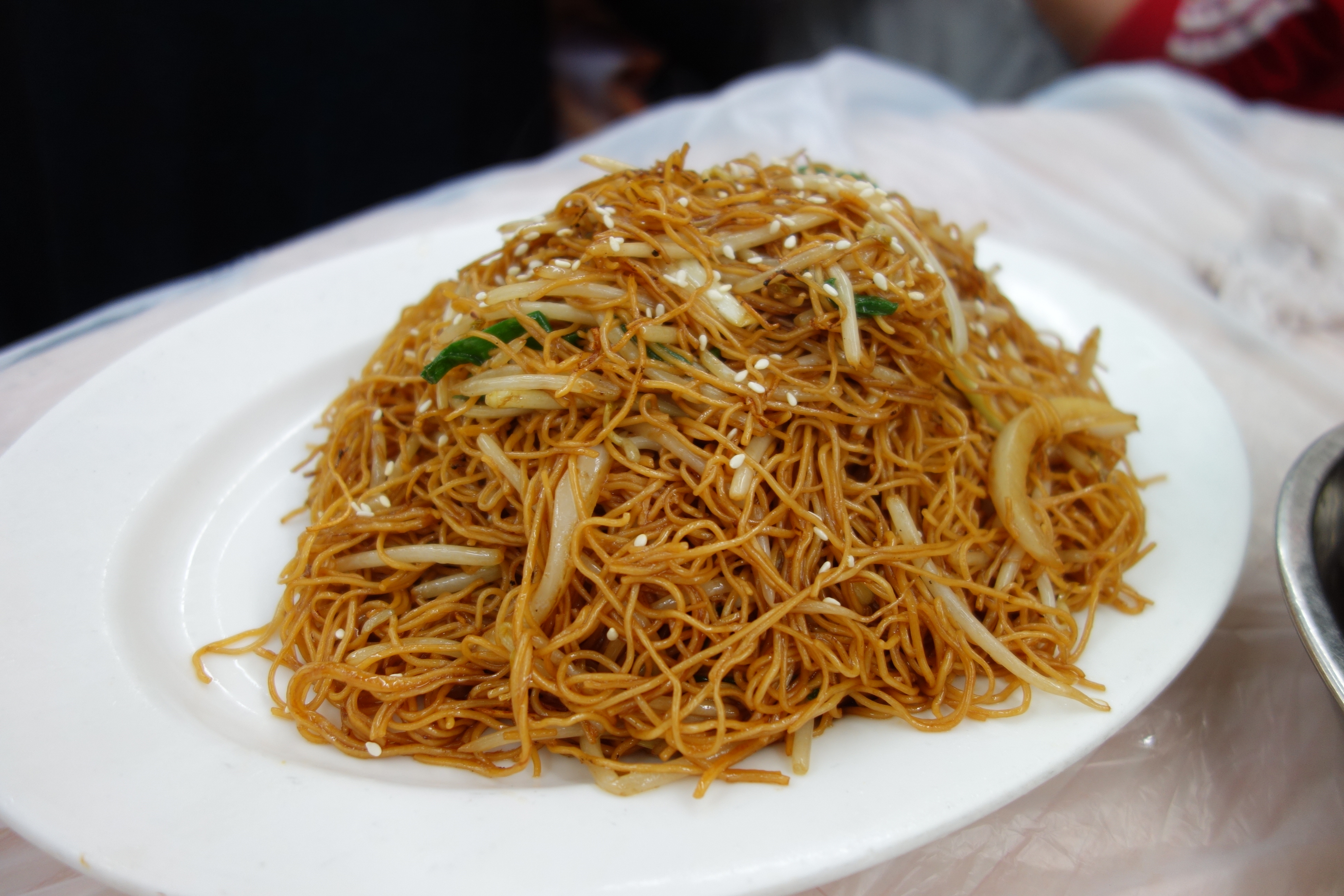 Soy Sauce Fried Noodles